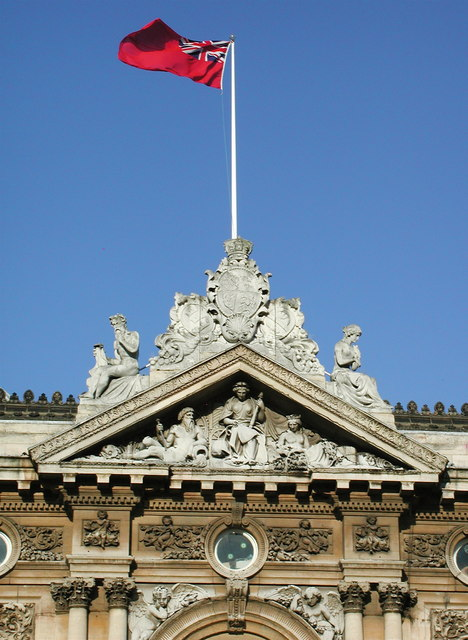 Hull Maritime Museum Detail of the former Dock Office building in Victoria Square, now home to Hull Maritime Museum (see also 240596).